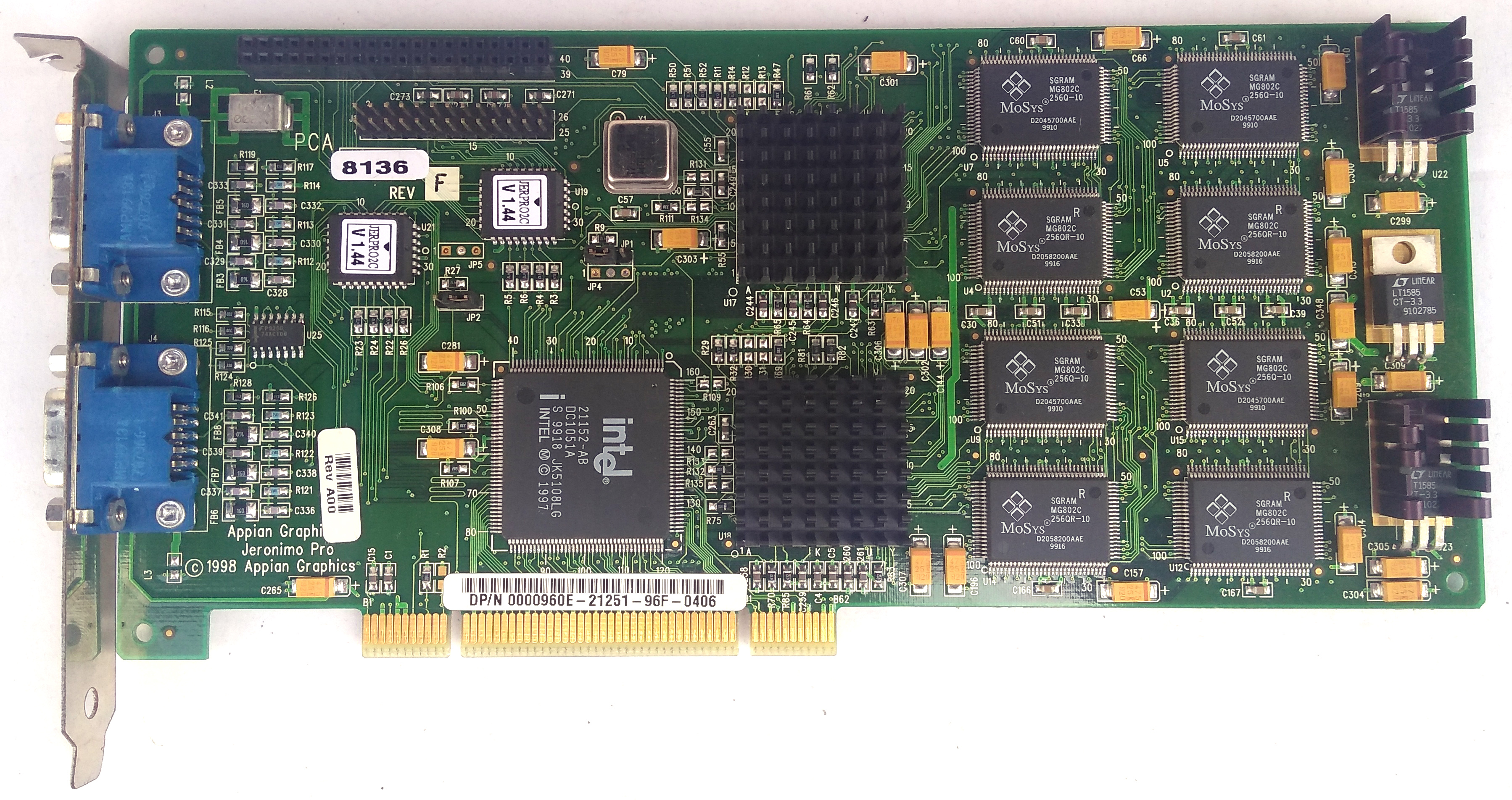 Dual monitor graphics card from Appian Graphics using two 3Dlabs Permedia 2 chips with 8 MB connected via Intel pci-to-pci-bridge (Intel 21152)